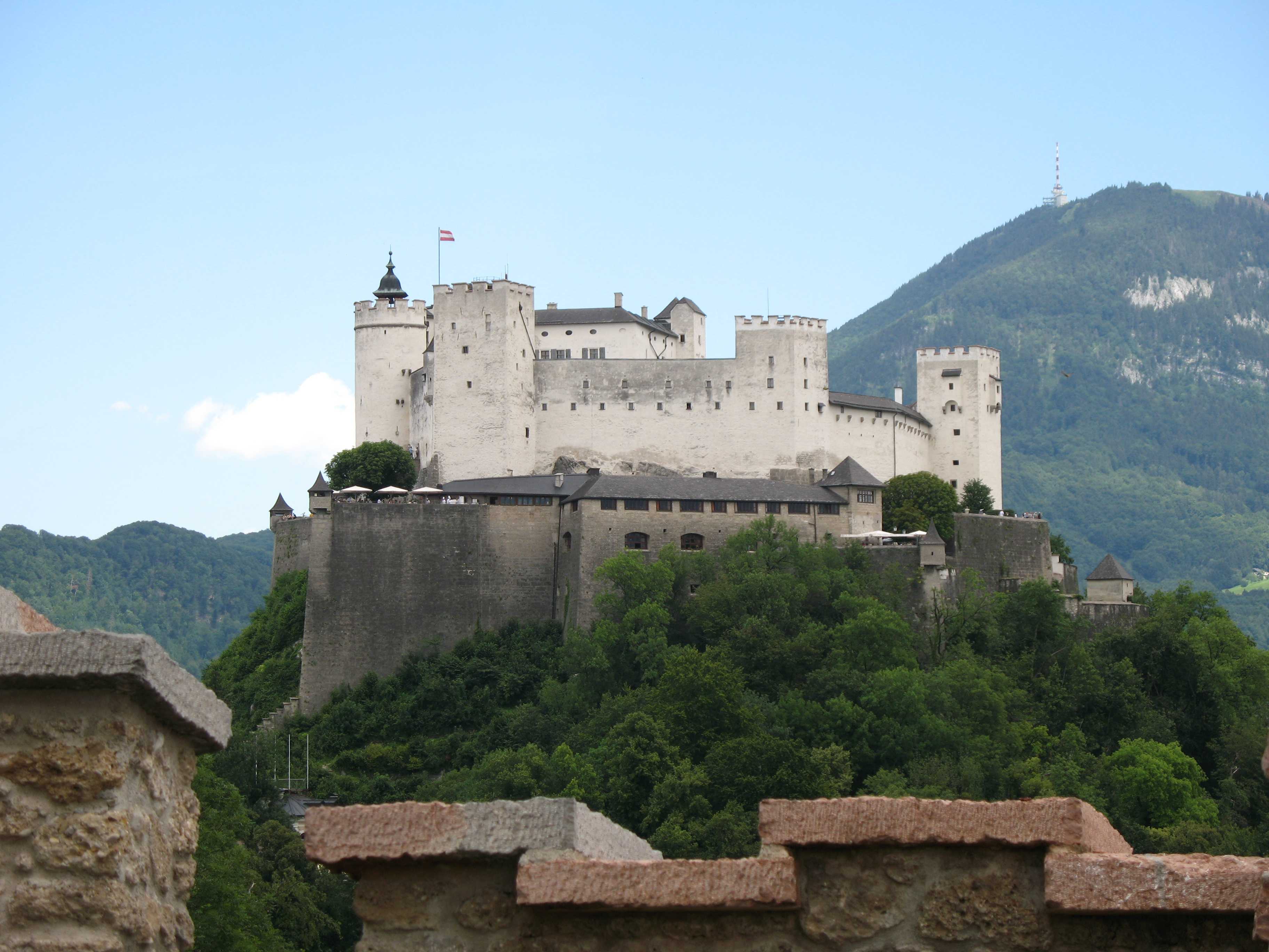 Festung Hohensalzburg viewed from Judge Ledge, Salzburg, Austria